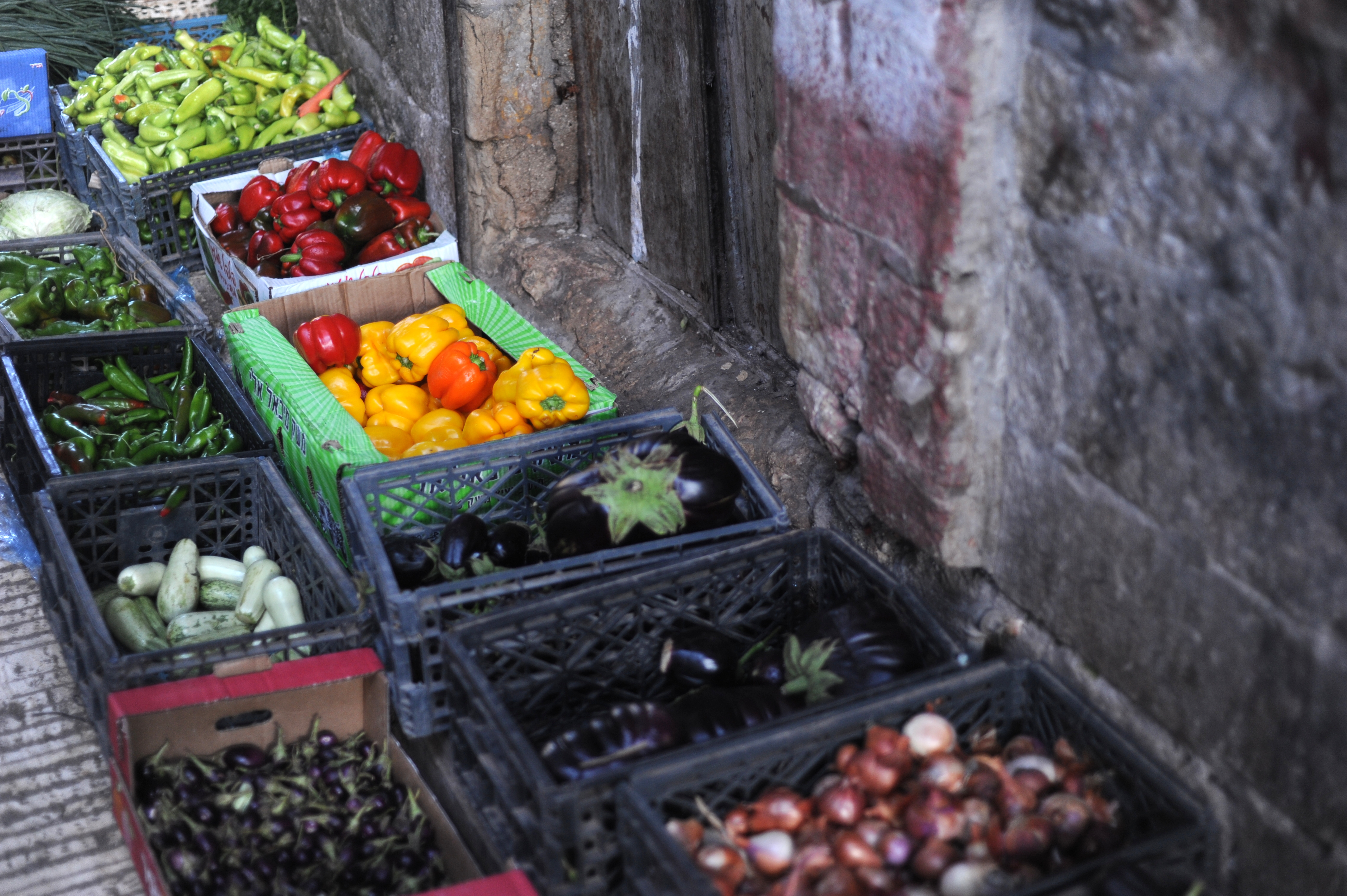 Vegetables at the souq on Khaled ibn al-Waleed street, in the old city of Nablus, West Bank